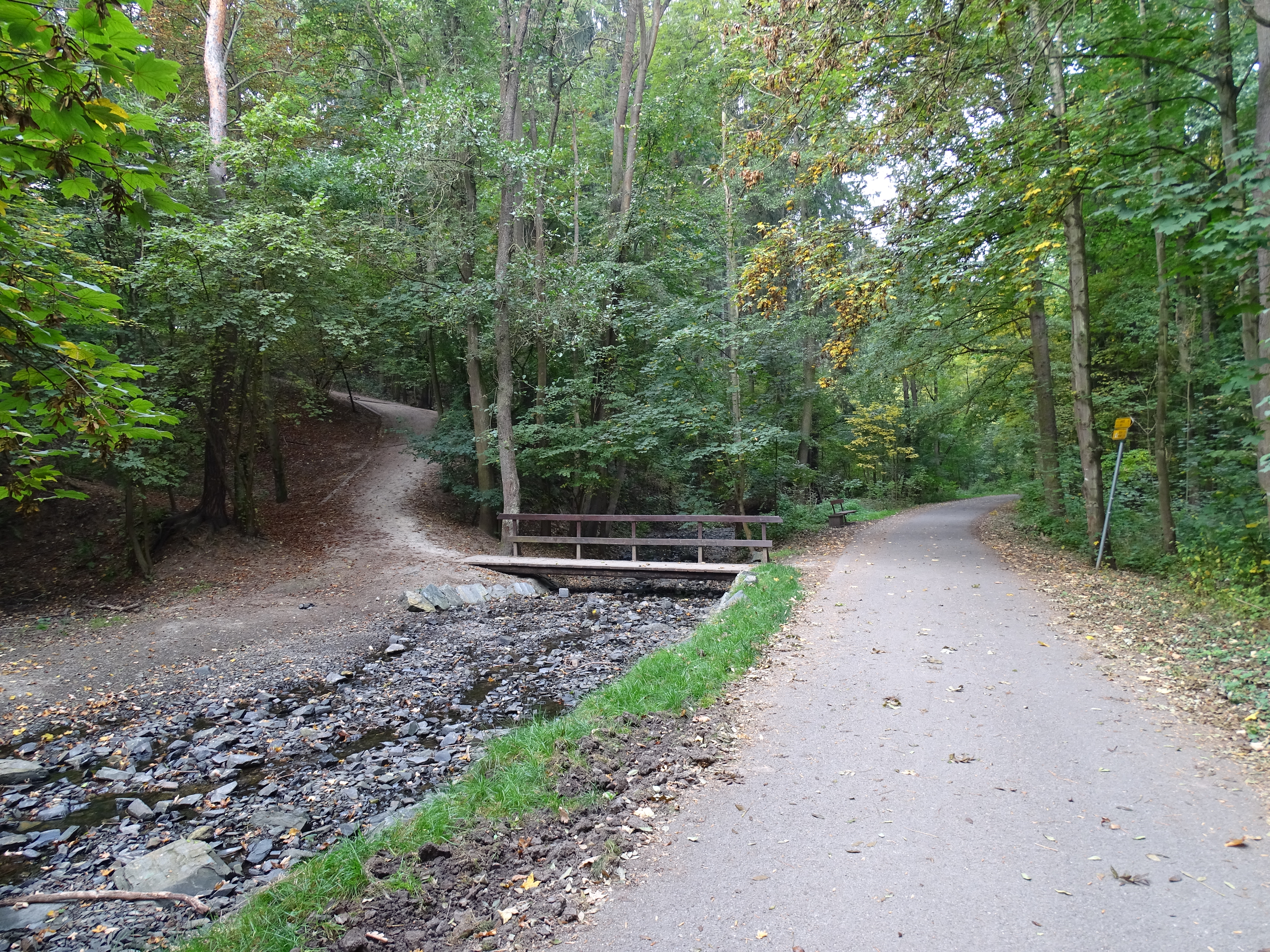 Prague-Modřany, Czech Republic. Modřanská rokle, Libuš Creek.